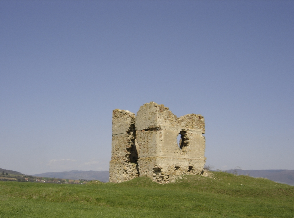 Covasna County, Valea Crişului,Tower-remains of a Gothic church, 15th century